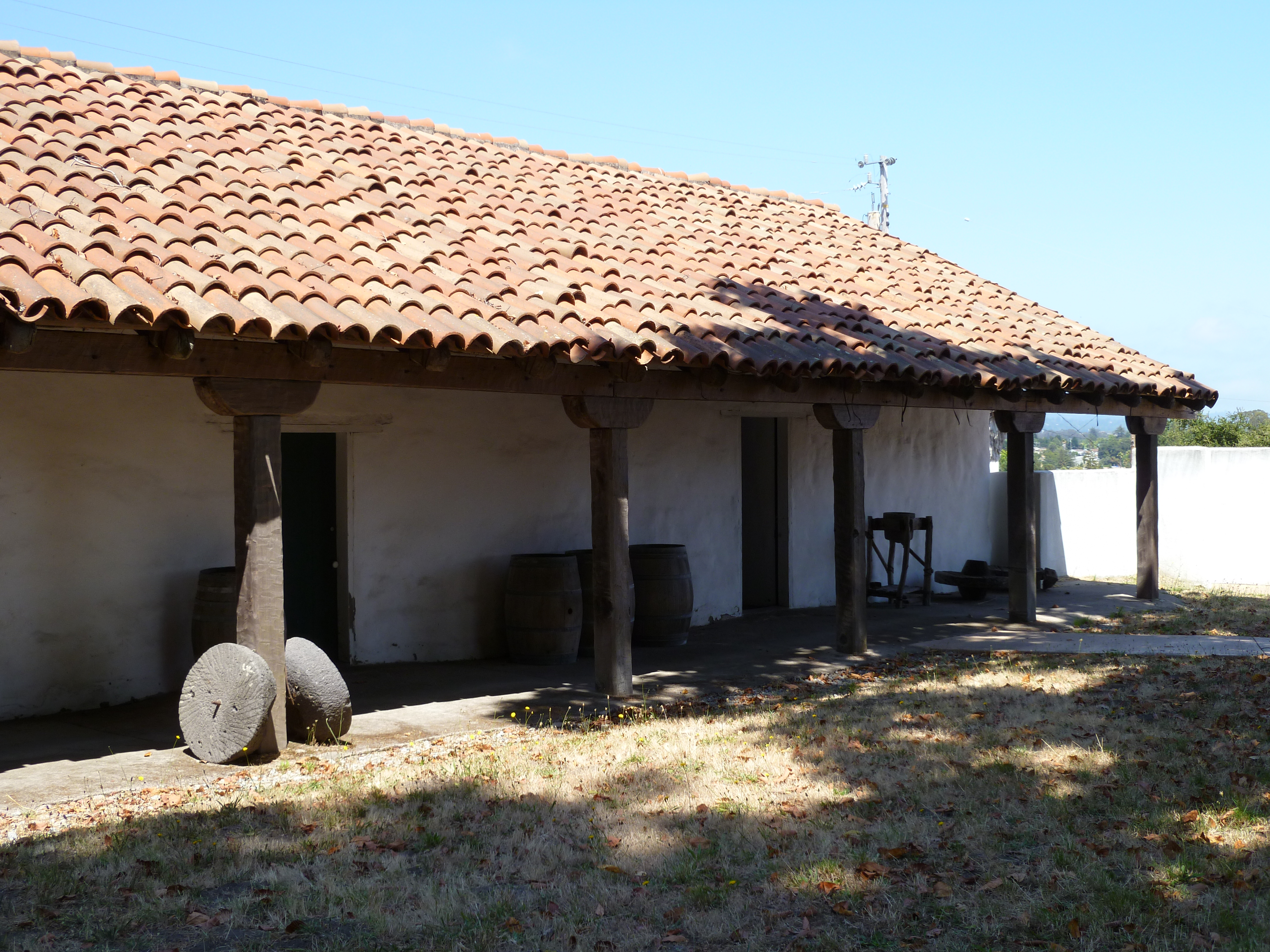 Last remaining building of Mission Santa Cruz (California). Built c.1800-1820